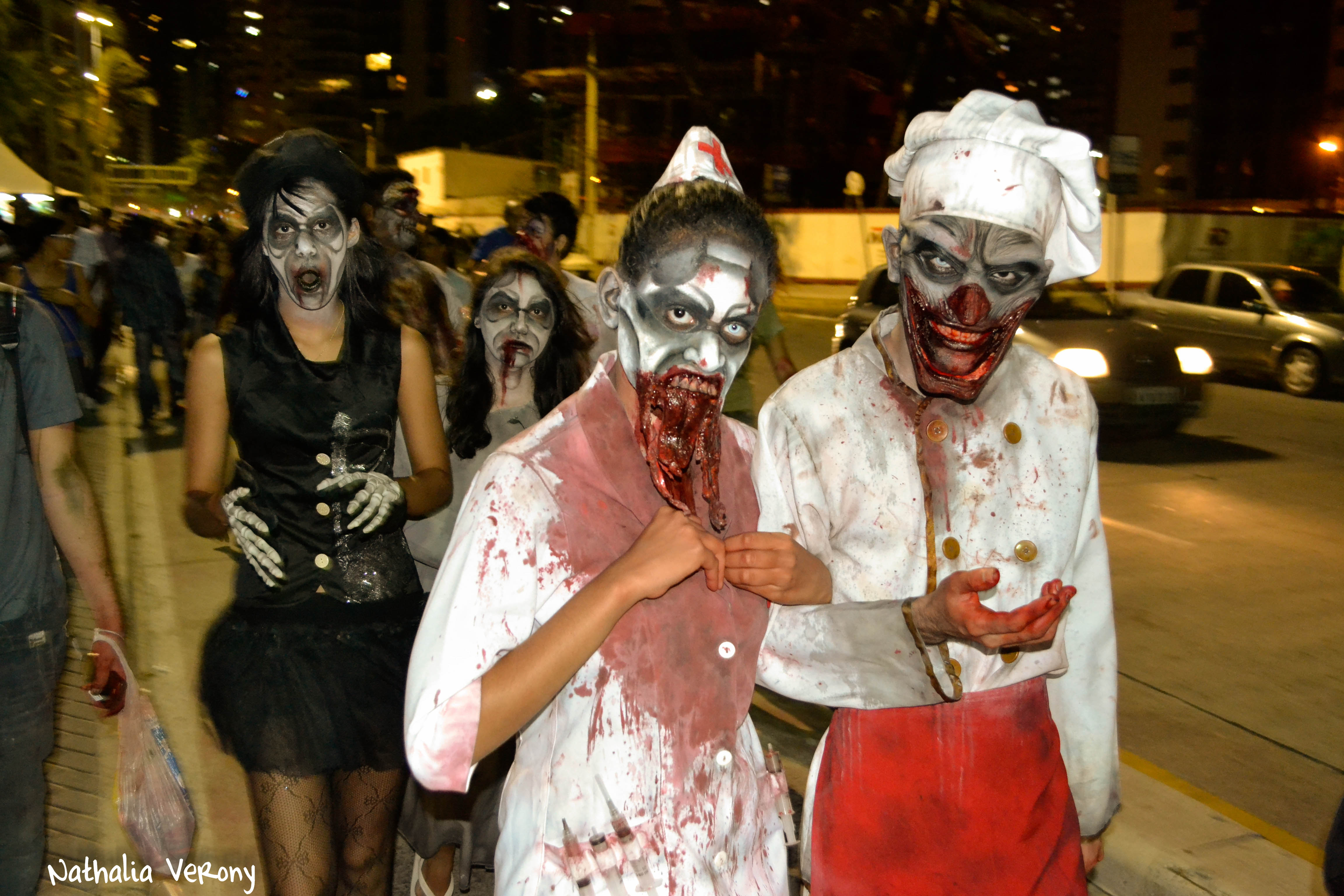 Zombie Walk in Recife, Brazil, 2012